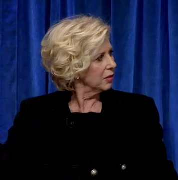 Writer Callie Khouri on Nashville 2013 PaleyFest in March 9, 2013